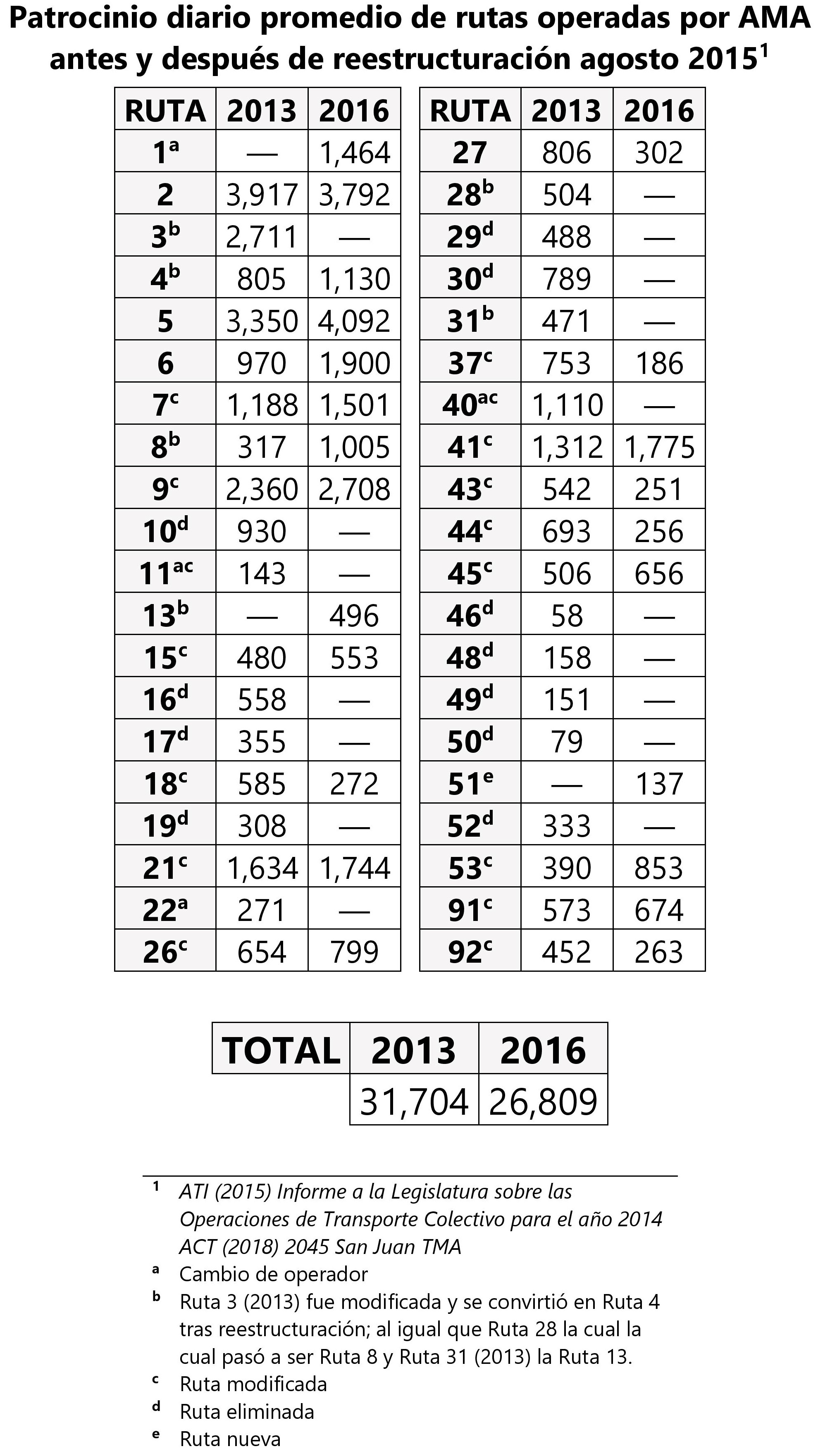 Patrocinio diario promedio de rutas operadas por AMA 2013-2016